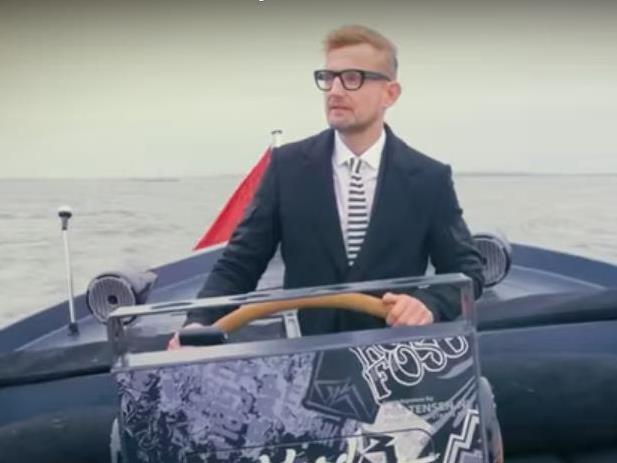 "We filmed the behind the scenes of Bernhard van Oranje for the magazine Esquire. It was on his own boat and on shore for some awesome shoots of the Prins van Oranje, Bernhard."